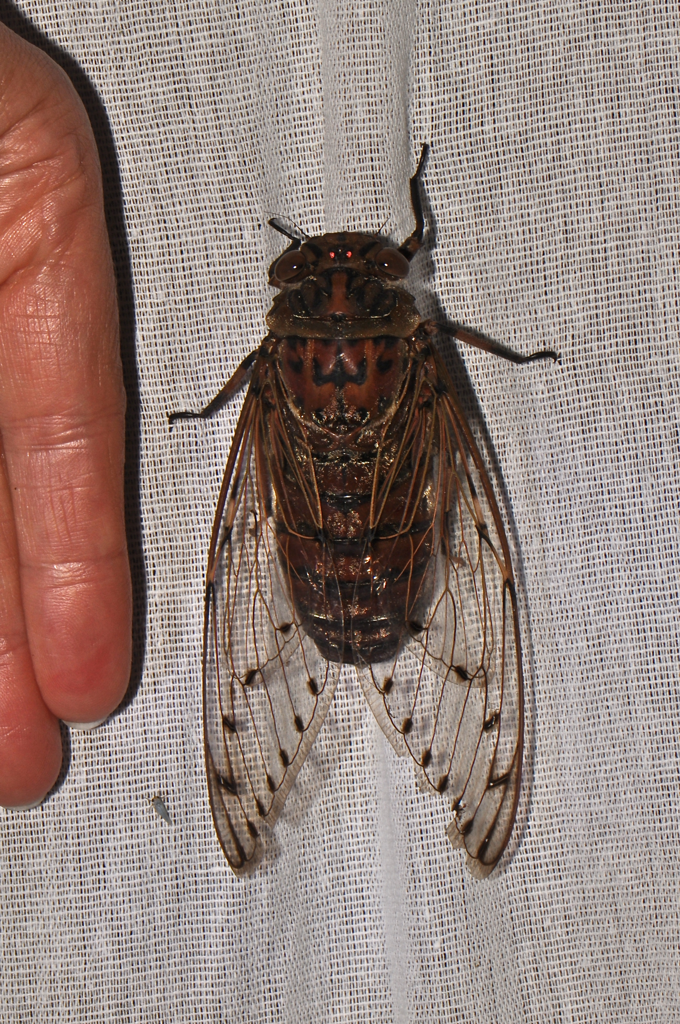 Giant cicada from Khao Sok National Park